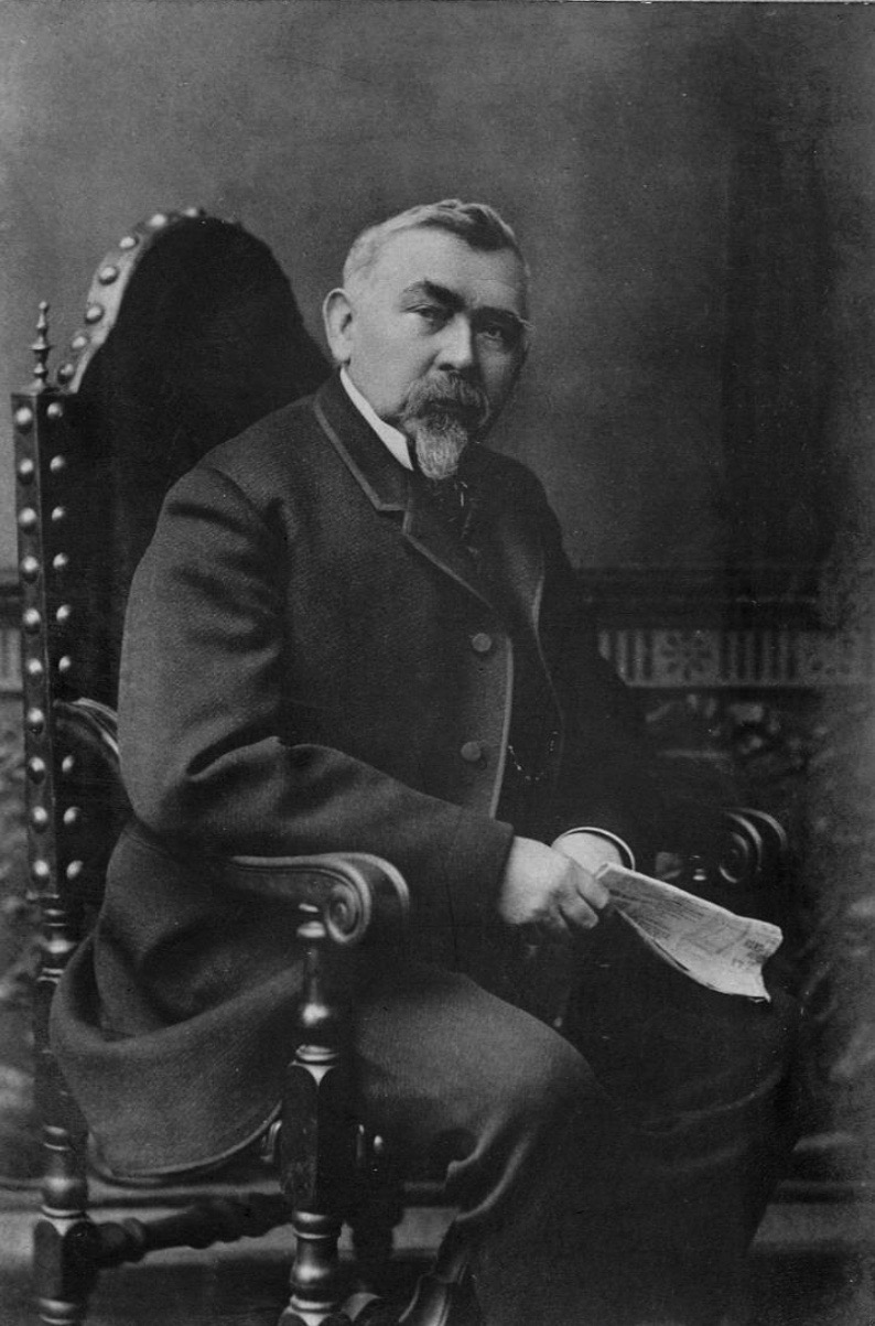 A photograph of Hermann Raster in his Chicago office in 1882